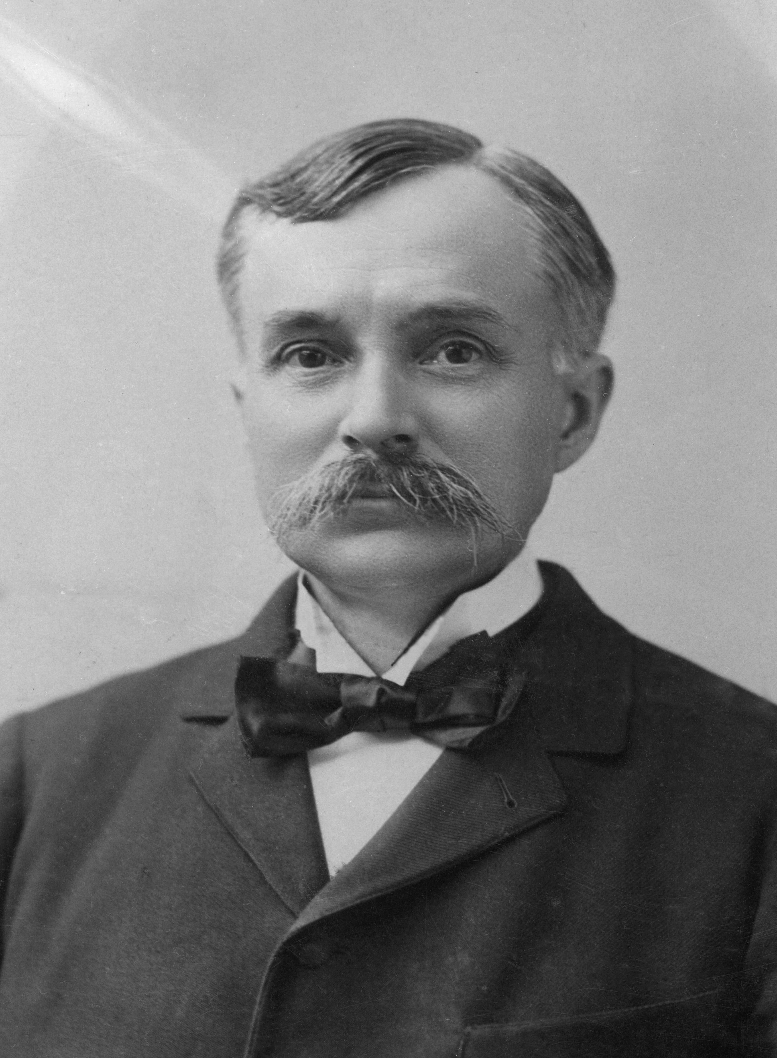 Scope and content: Photographic bust portraits taken by W.H. Slater, a Washington, D.C. photographer for the Department of Treasury. Photographs are of Assistant Secretaries, Bureau and Service Chief, Auditors, and other Senior Staff Personnel. Photographs are captioned on the back, except for two which are unidentified. See Finding Aid Folder for names of individuals. Portraits include Daniel N. Morgan, Treasurer of the U.S.; Joseph S. Miller, Commissioner of the Internal Revenue Service; and Robert E. Preston, Director of the Mint. There are no negatives.